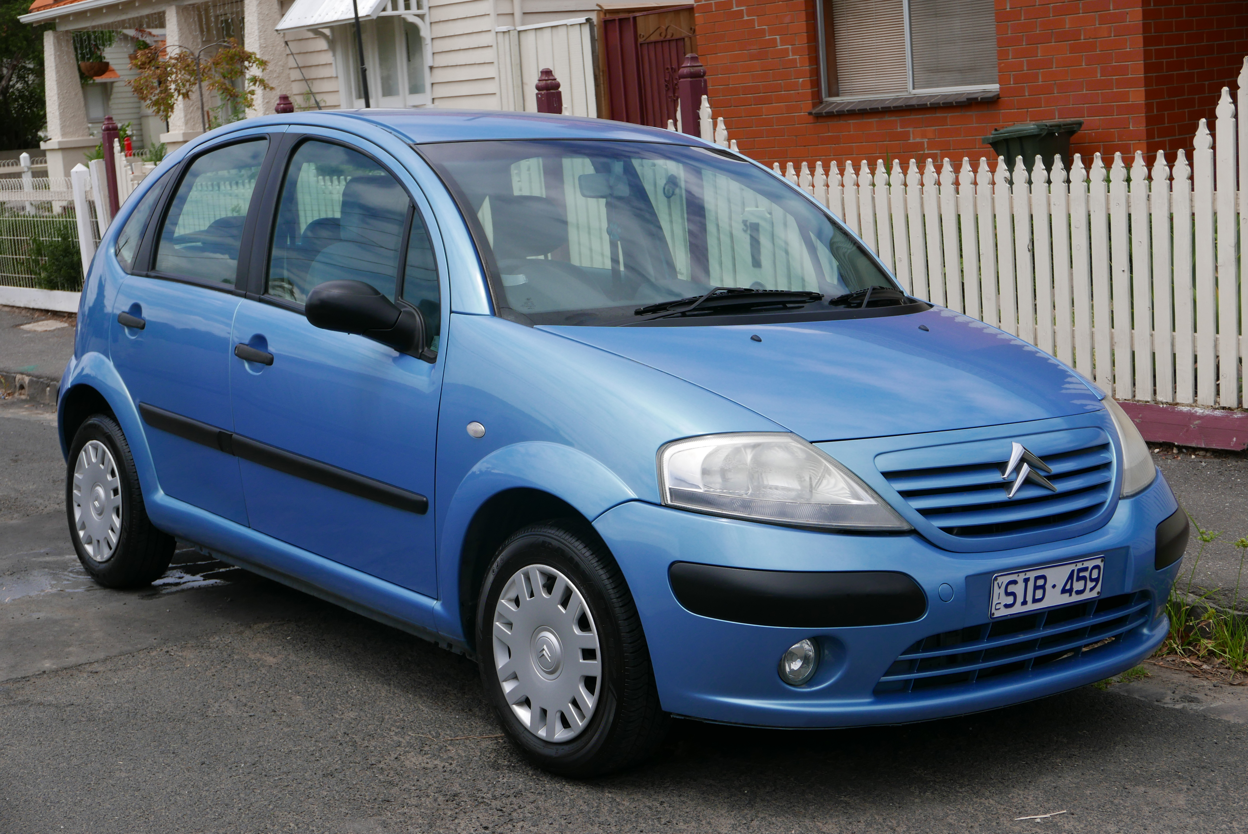 2003 Citroën C3 Exclusive hatchback. Photographed in Brunswick, Victoria, Australia. Vehicle registration enquiry results Jurisdiction Victoria Registration SIB459 Chassis code VF7FCKFVB26599615 Engine code 10FS634245538 Compliance date 2003-03 Year of manufacture 2003